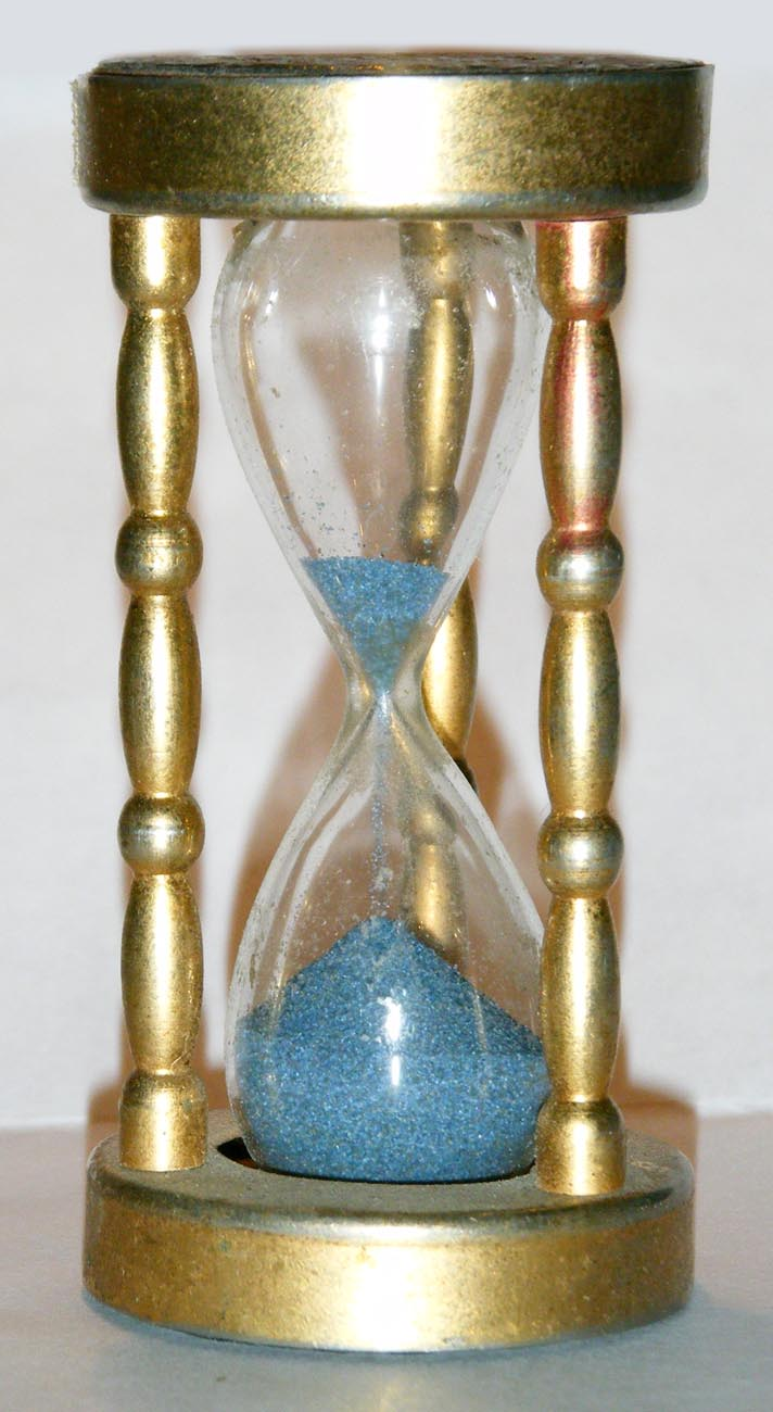 Hourglass